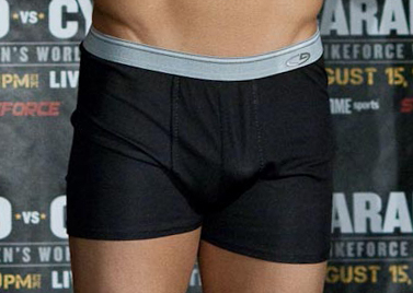 Boxer shorts worn by Jay Hieron